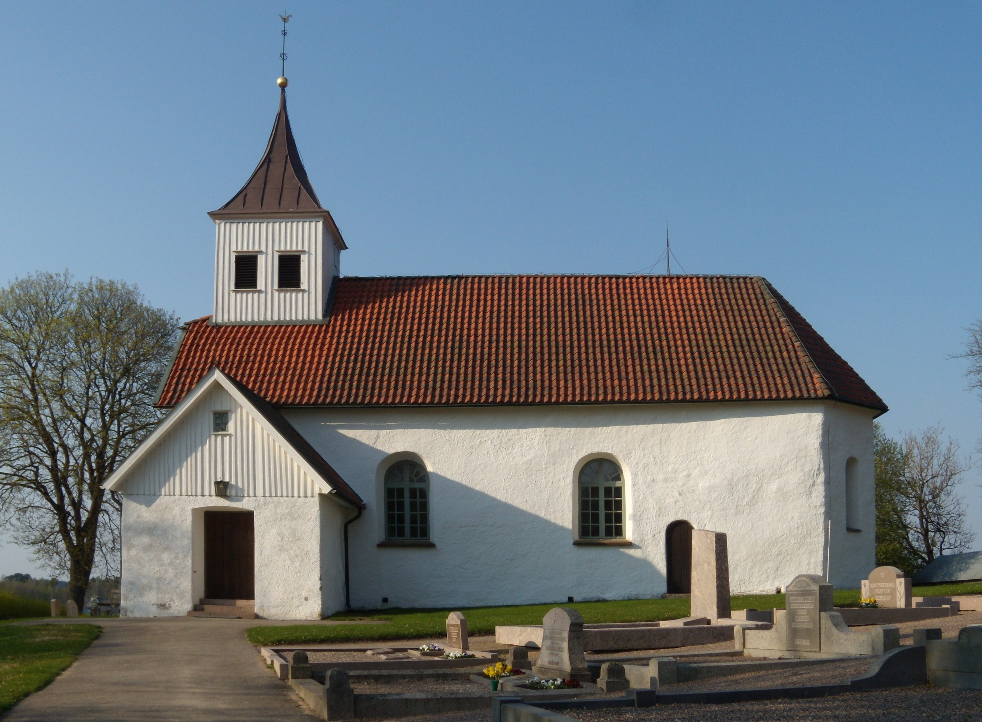 Algutstorps kyrka utanför Vårgårda, Sverige